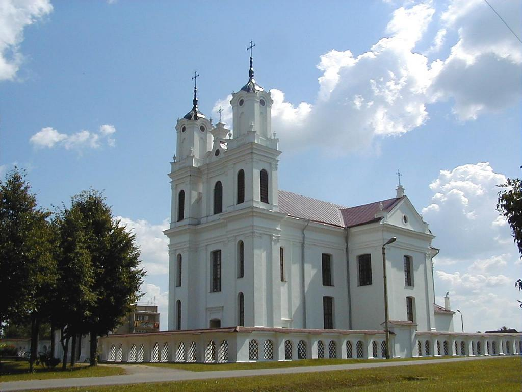 Dviete Saint Stanislaus Roman Catholic Church